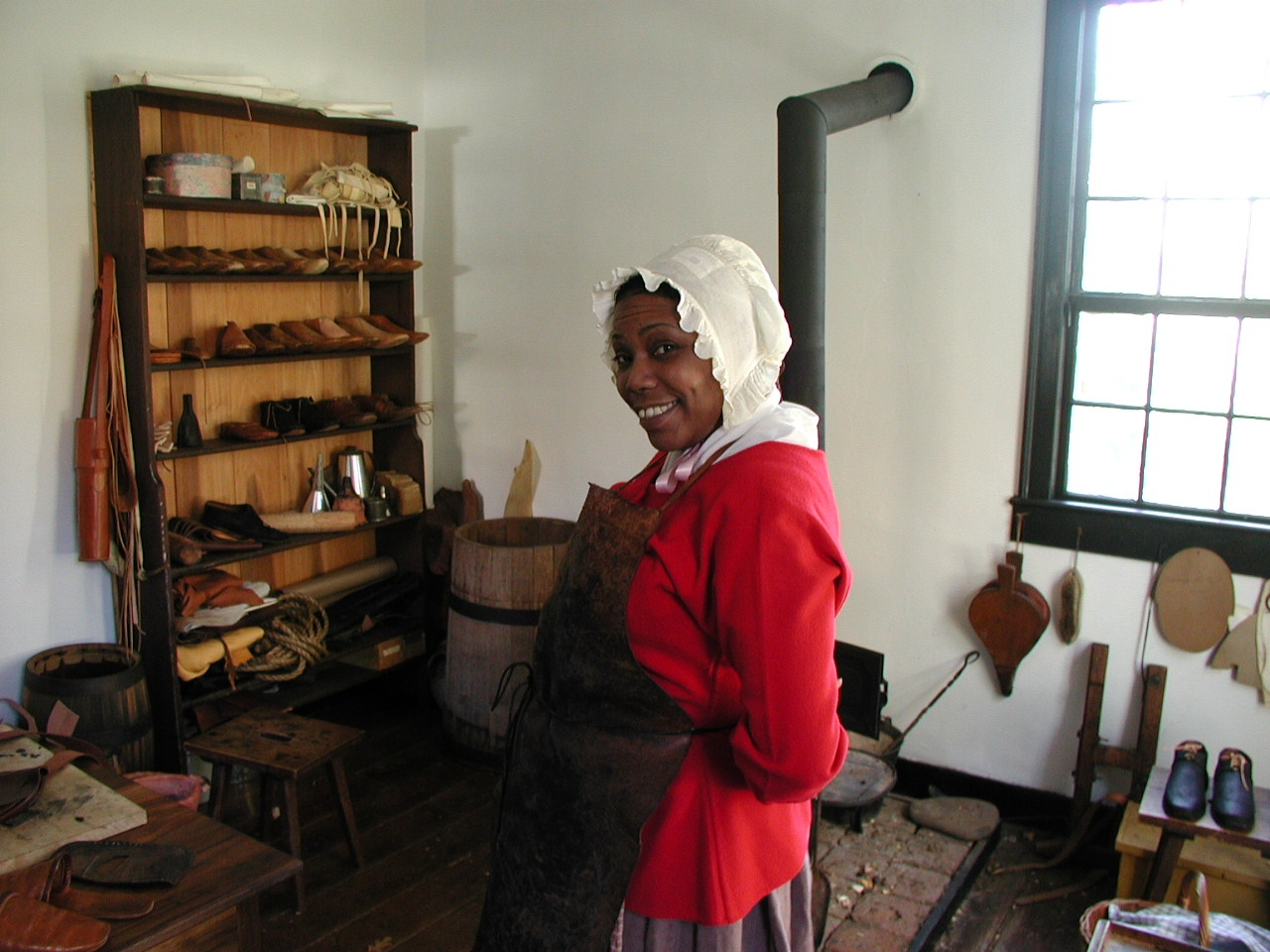 I took this picture in Old Salem.